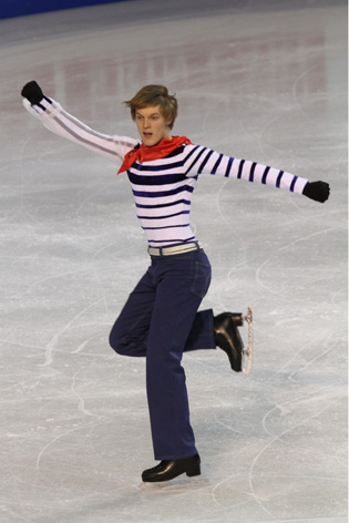 Tomas Verner at the 2010 European Figure Skating Championships.